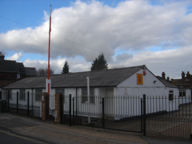 The Siri Guru Singh Sabha Gurdwara: a gurdwara in the West Green neighbourhood of Crawley, West Sussex, England.